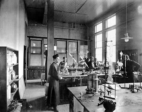 Father Julius Nieuwland performed the early work on basic reactions involving vinyl-acetylene that was later used by Du Pont chemists to create the synthetic rubber, neoprene (1931)